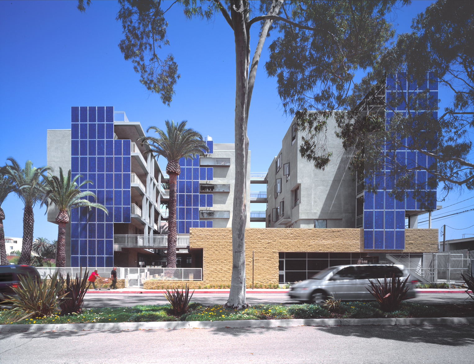 Colorado Court Affordable Housing — Santa Monica, Southern California. A 44 unit affordable housing project in downtown Santa Monica. Solar cell panels — on the first LEED certified multi-family project in the USA.